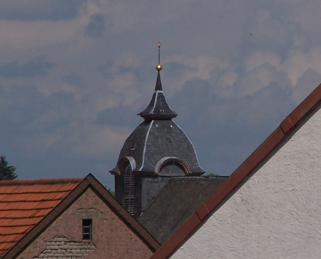 Church Tower of the village of Becherbach (Pfalz), Rhineland-Palatinate, Germany (Church built 1791-1793)